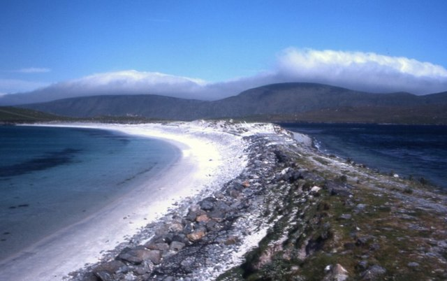 Isthmus in the South of West Burra with Shetland Mainland in the background, Shetland, Scotland